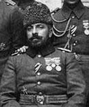 Vehib Pasha also known as Wehib Pasha, Vehip Pasha, Mehmed Wehib Pasha, Mehmet Vehip Pasha (modern Turkish: Kaçı Vehip Paşa or Mehmet Vehip (Kaçı), 1877–1940), was a general in the Ottoman Army. He fought in the Balkan Wars and in several theatres of World War I. in his later years, he acted as a military advisor to the Ethiopian army in the Second Italo-Abyssinian War.